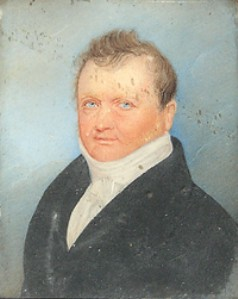 Portrait of Sir James Willoughby Gordon